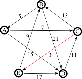 Schulze methode - Cloneproof Schwartz Sequential Dropping (CSSD), step two